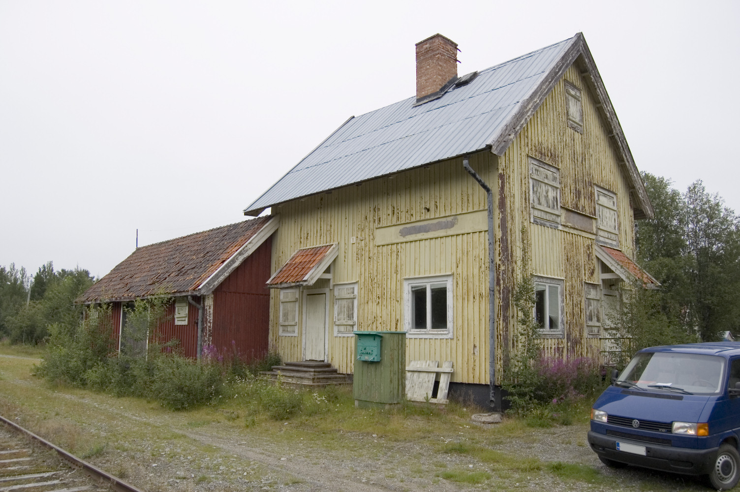 Old railway station in Meselefors on the Inlandsbanan.